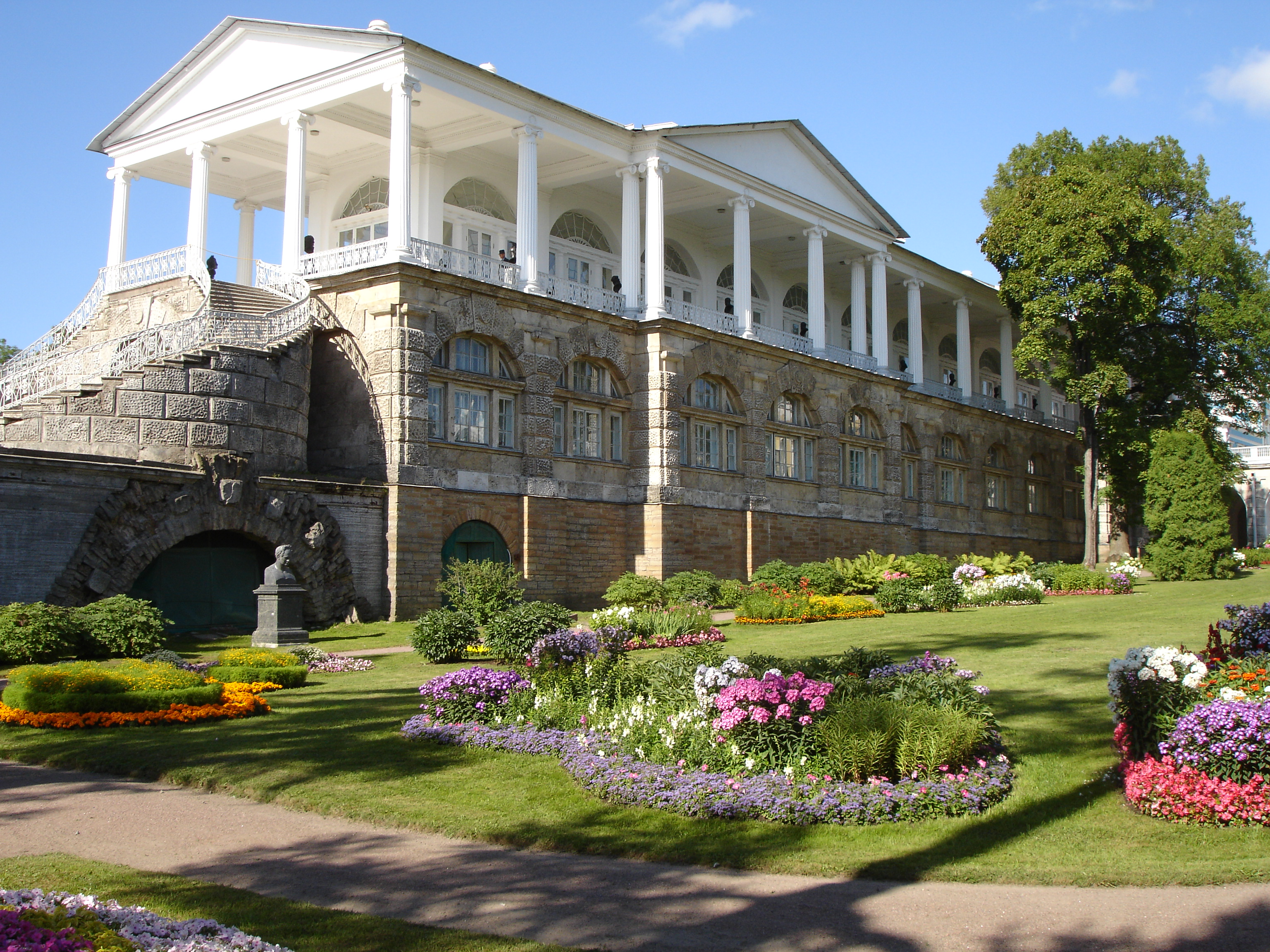 Tsarskoye Selo, once known as the Czar’s Village or Pushkin, is approximately 17 miles south of the city of St. Petersburg and is the site of Catherine’s Palace. Built between 1719-1723 and restored many times, it has a stunning aqua colored façade, decorated with statues, gold and white ornaments and topped with gold onion domes. Inside is an immense collection of art work and furnishings. This, as with all of the palaces in the area, was heavily damaged by retreating German forces, but is now almost completely restored. See set comments for “St. Petersburg Overview & History” .